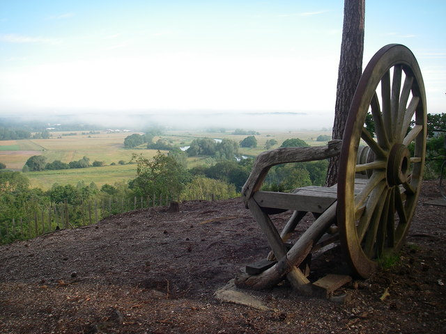 Good Friday Hill Since the clearance of pines from the slopes of Good Friday Hill, this seat has wide views across the Avon Valley and beyond. Here the view is limited by the early morning mist over the Avon at Burgate.